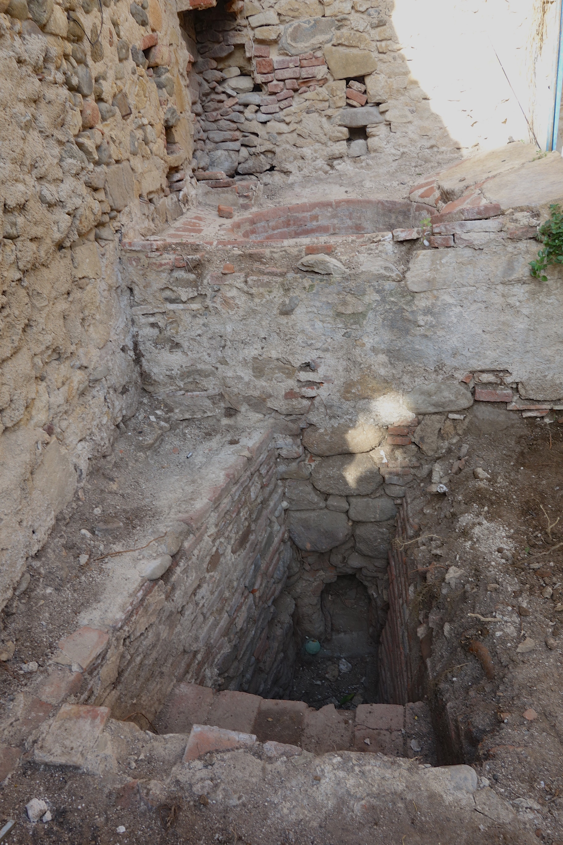 Calonge (Carrer Enric Lluís Roura), Catalonia: Stairs to the fireplace under on old cork cooking oven